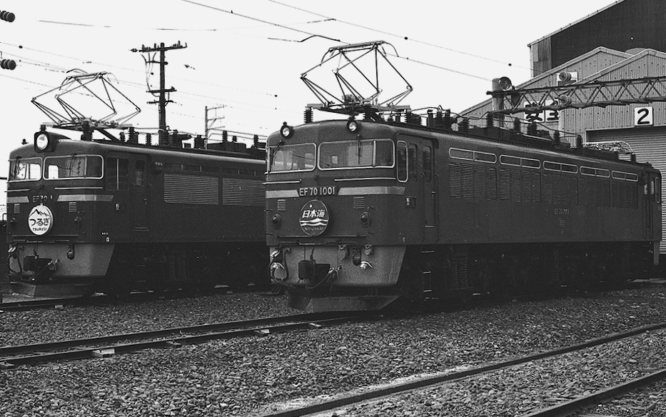 JNR Class EF70 electric locomotives EF70 1 (with Tsurugi headboard) and EF70 1001 (with Nihonkai headboard) on display at an open day event at Tsuruga No. 2 depot